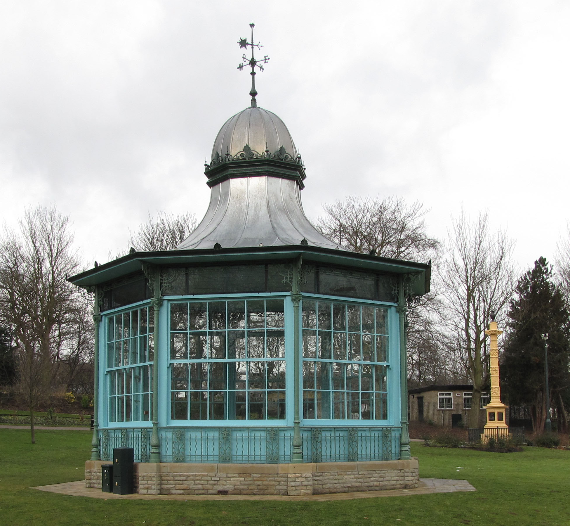 Bandstand in Weston Park, Sheffield, England